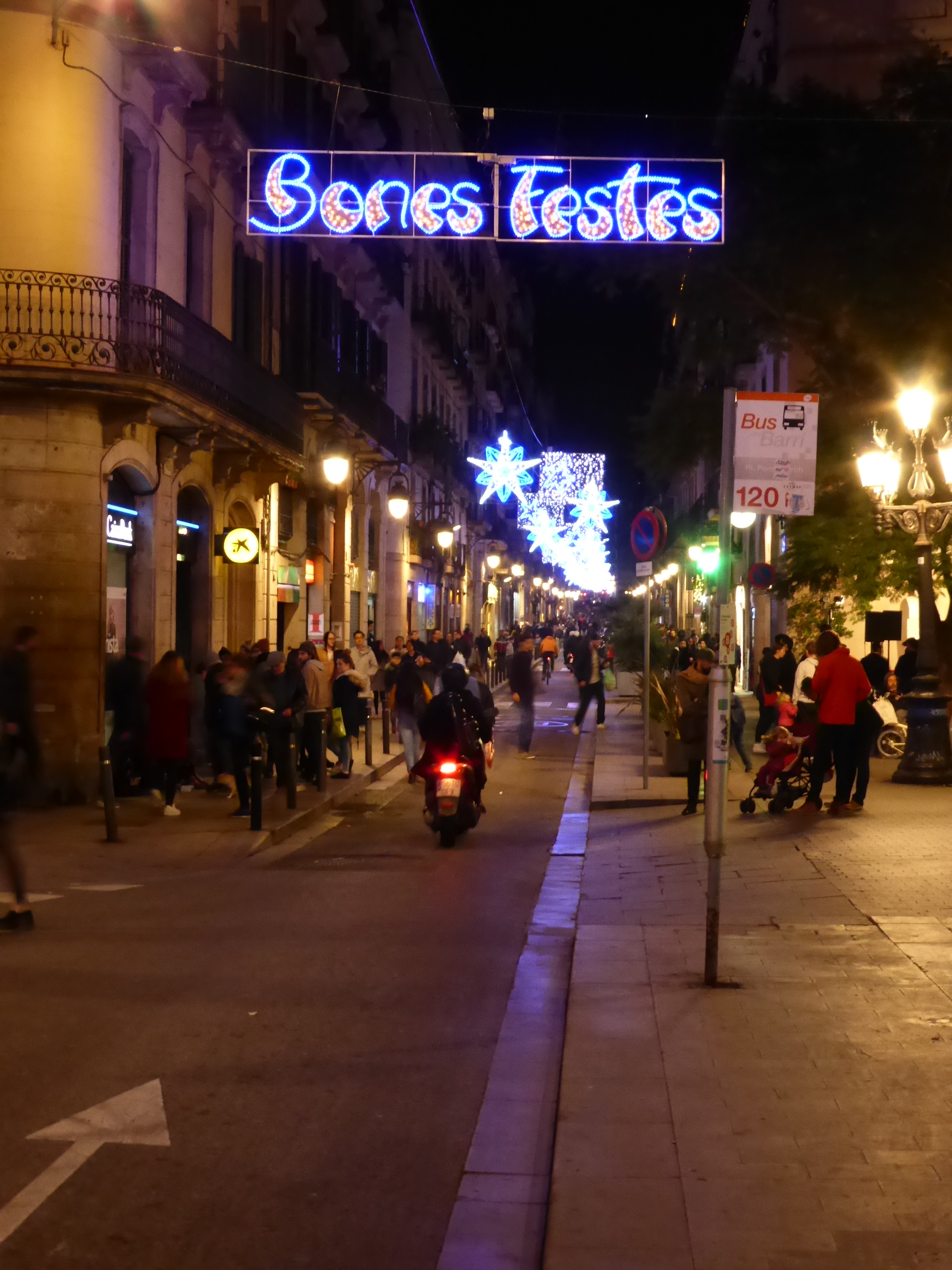 Barcelona in December 2016